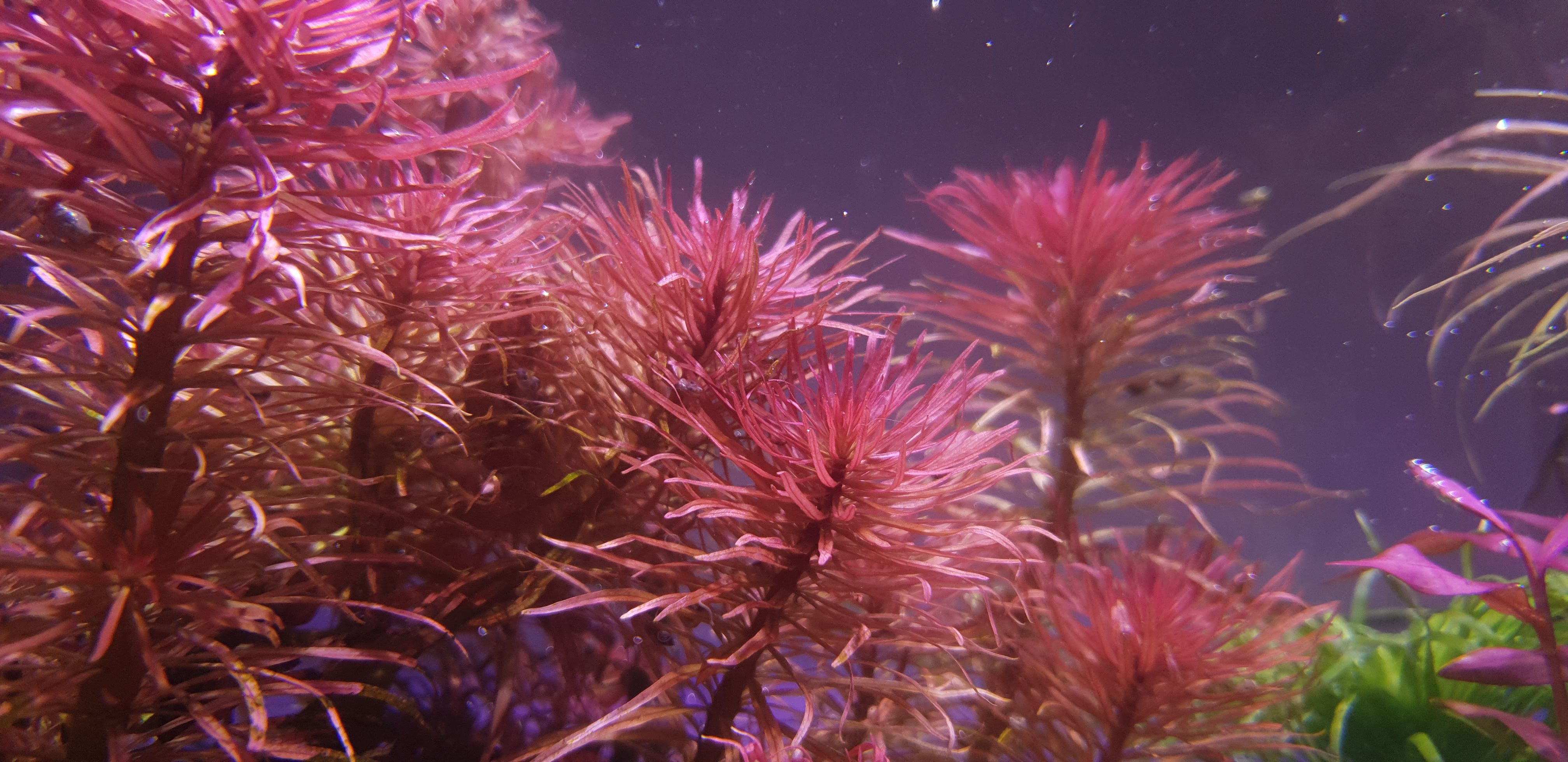 submersed habitus of Ludwigia inclinata var. verticillata 'Pantanal'